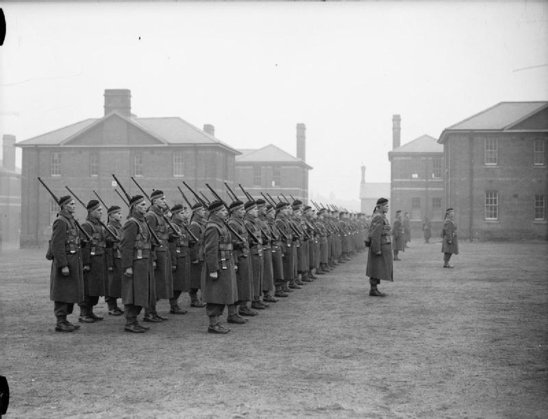 Dominion and Empire Forces in the United Kingdom 1939-45 Men of the Canadian 1st Battalion Toronto Scottish Regiment on parade at Aldershot, December 1939.